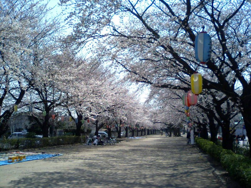 Chuo Park in Fujimino City during cherry blossom season